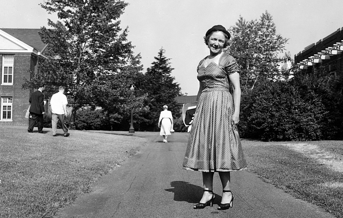 Helen Hayes MacArthur walks on the grounds of Helen Hayes Hospital in West Haverstraw, NY in this photo taken in the 1950s.